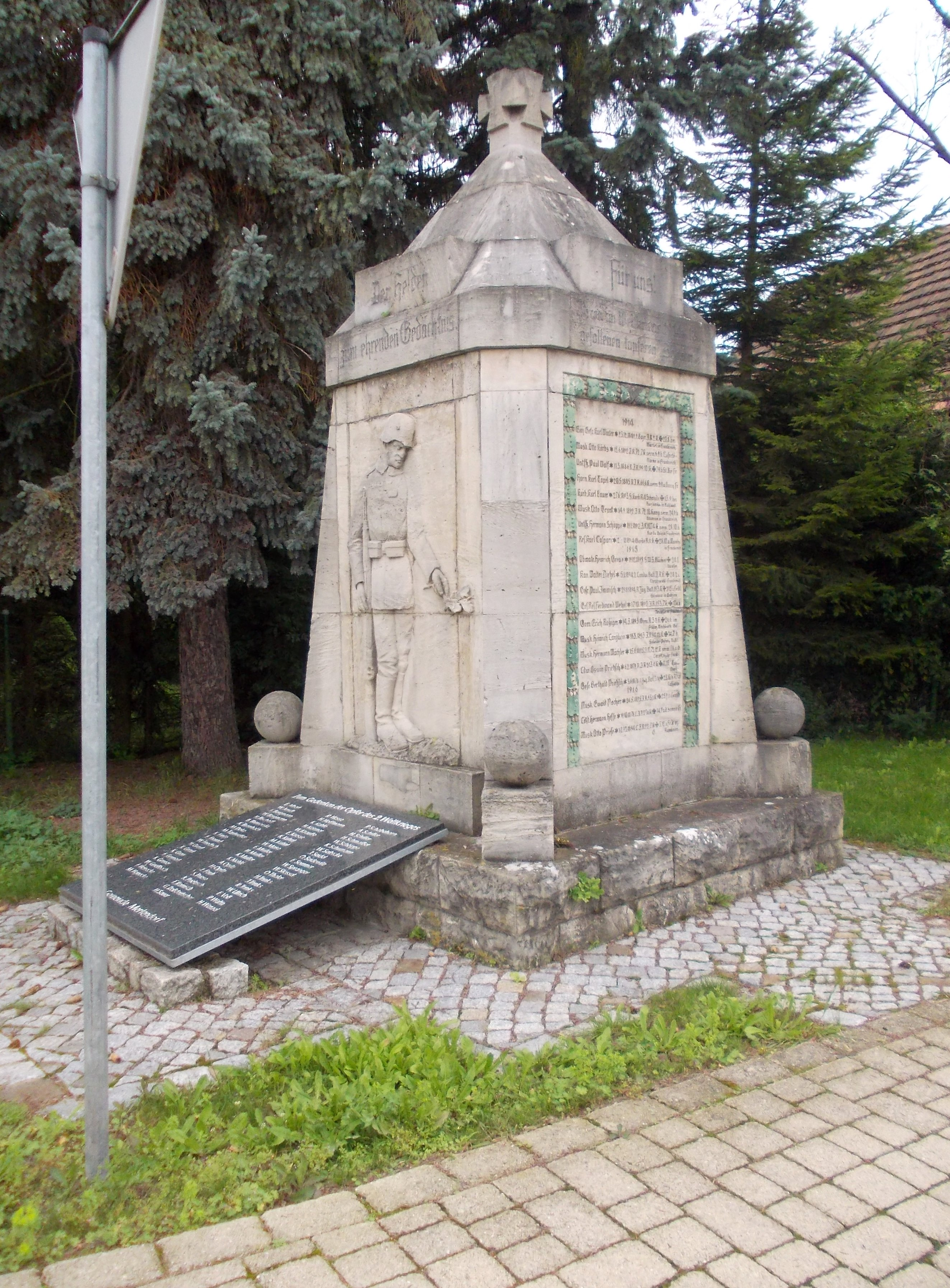 World War I and II memorials in Mertendorf (district: Burgenlandkreis, Saxony-Anhalt)